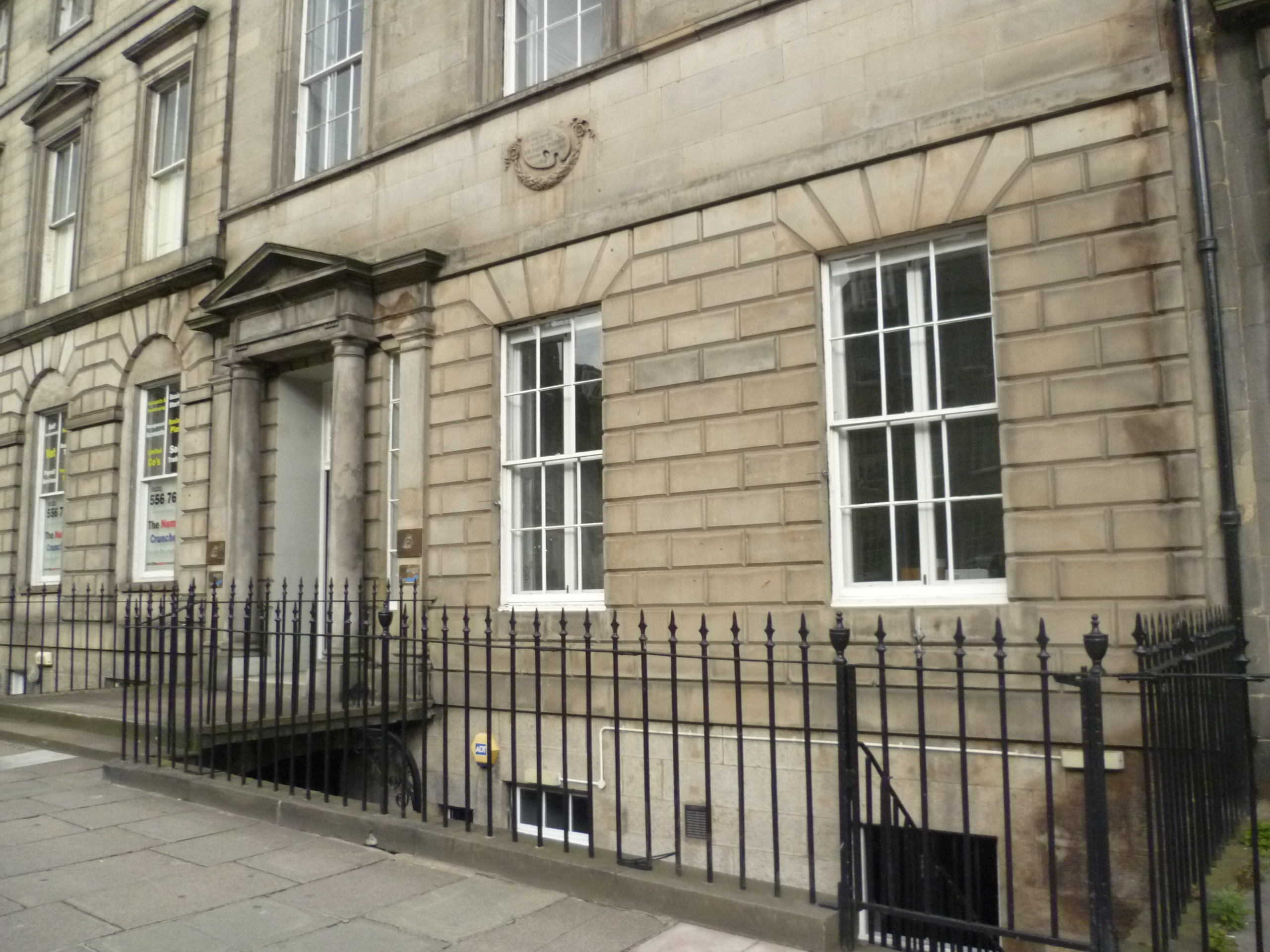 The studio of the celebrated painter, Sir Henry Raeburn, in 32 York Place, Edinburgh. Many of his portraits can be seen in the Scottish National Portrait gallery in nearby Queen Street.